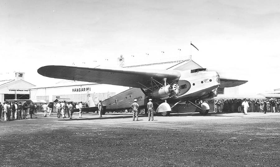 one of two Fokker F.32 operated by Western Air Express in 1930 (Western Air Express became Western Airlines in 1941)